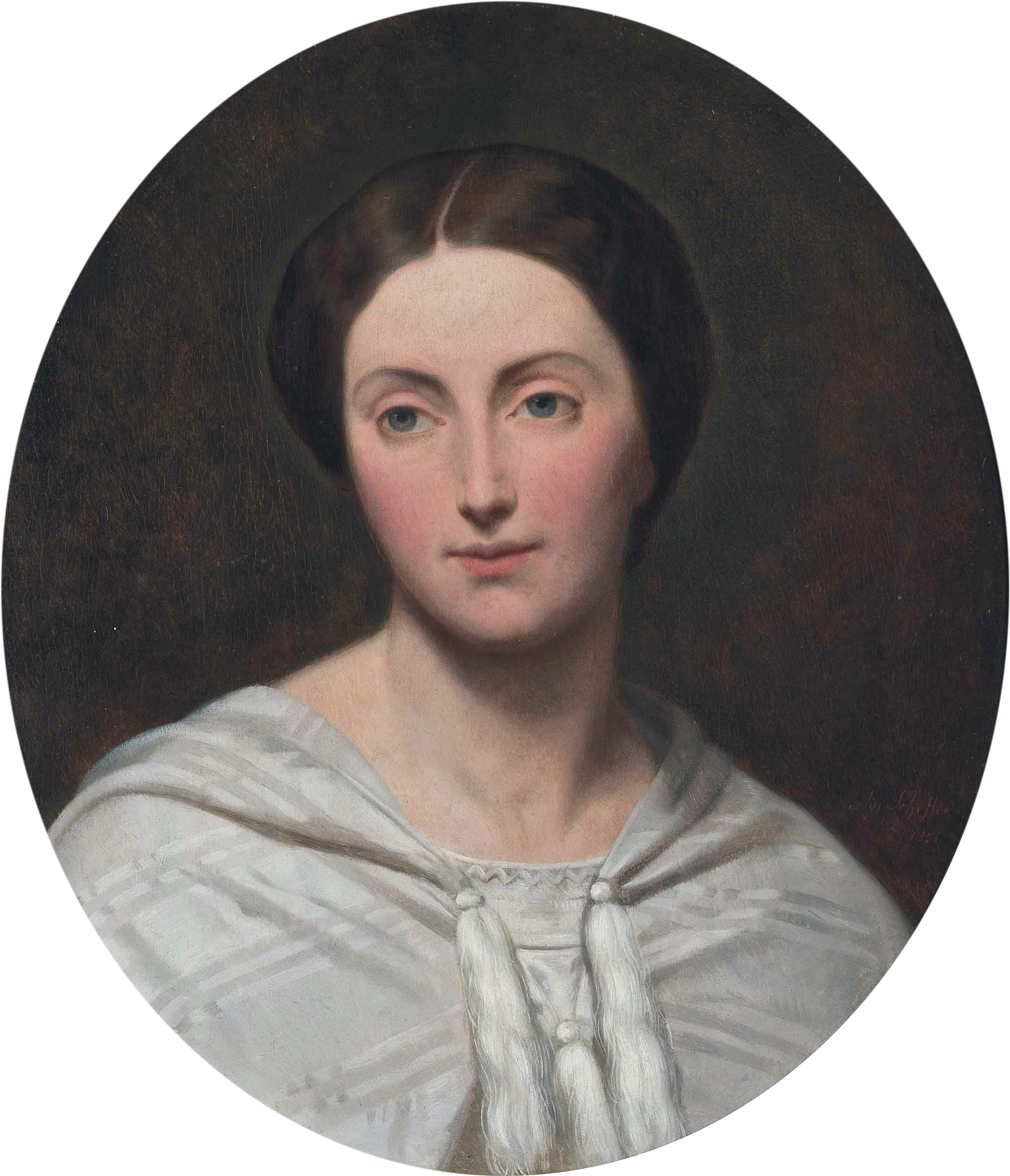 Anna Maria Helena, comtesse de Noailles oil on panel 50.8 x 44.5 cm signed b.r.: Ary Scheffer/ 1856